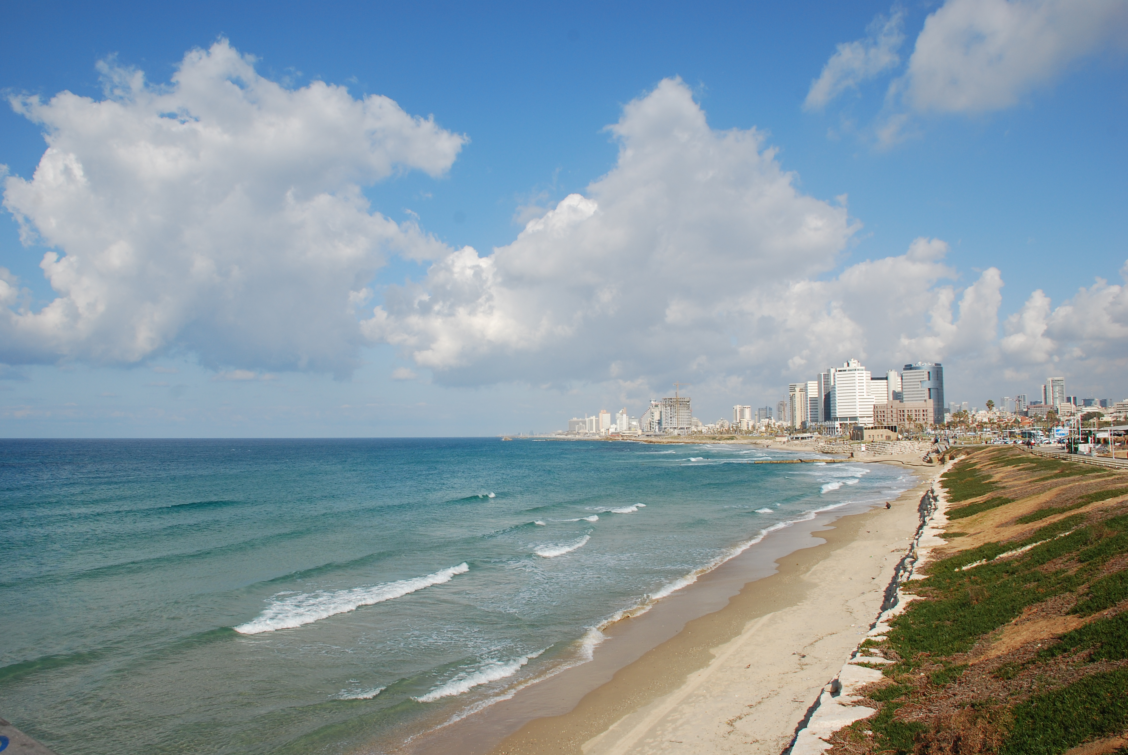 Tel Aviv beach, Geography of Israel